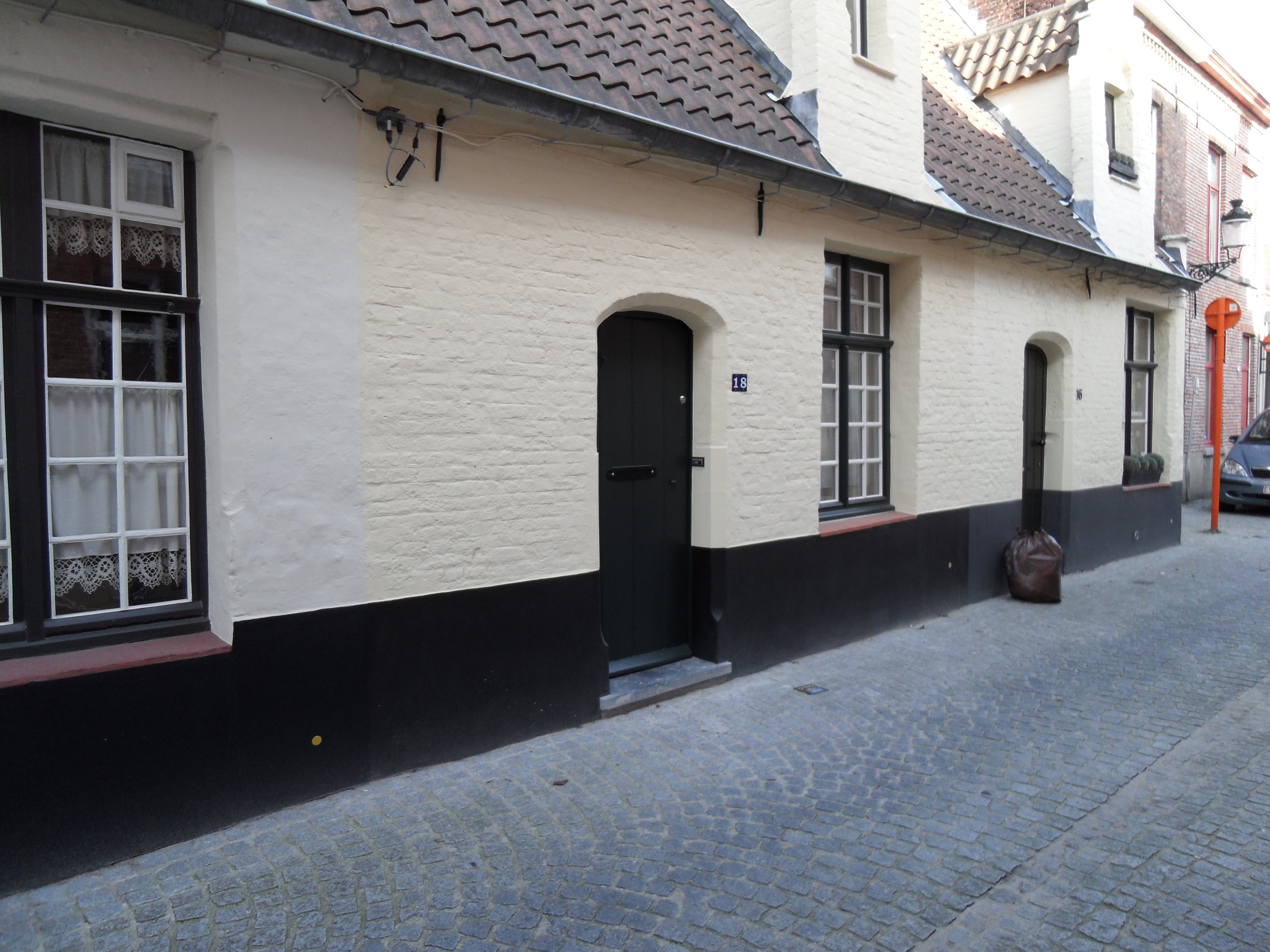 Helmstraat in Bruges